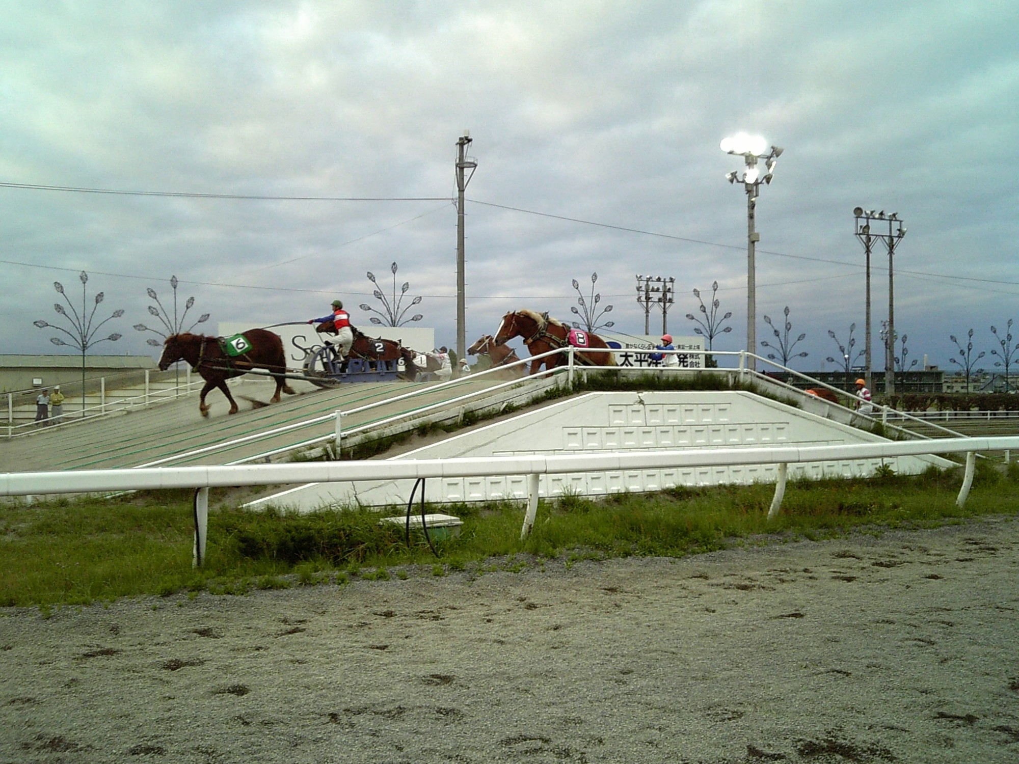 Ban'ei horses in Obihiro horseracing course. ばんえい競馬帯広競馬場